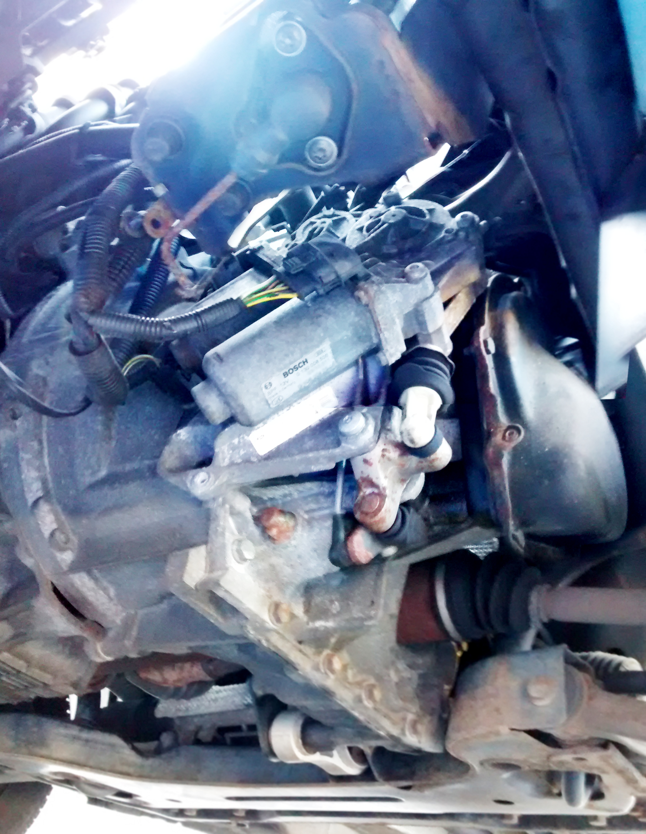 Ford Durashift Transmission Actuators